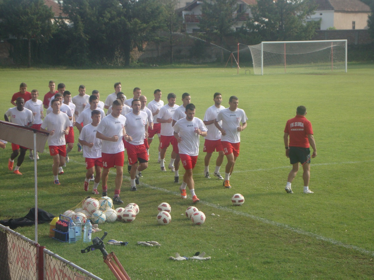 Pre season training of FK Sloga Petrovac na Mlavi